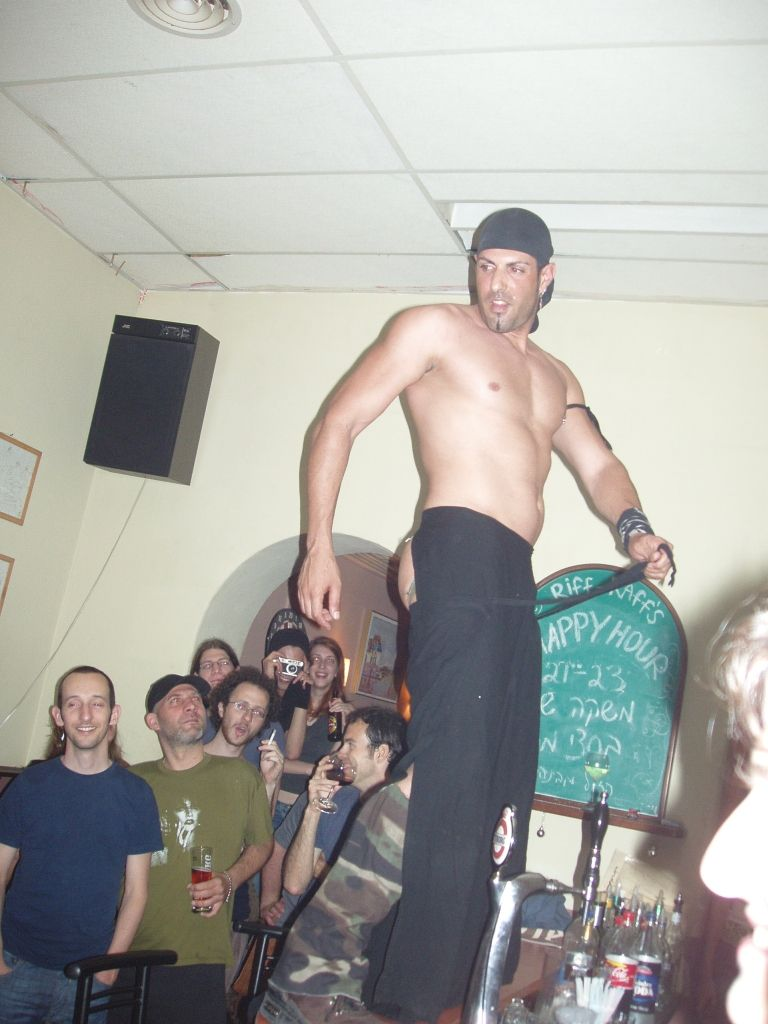 Male stripper, Pablo at the Riff Raff bar.